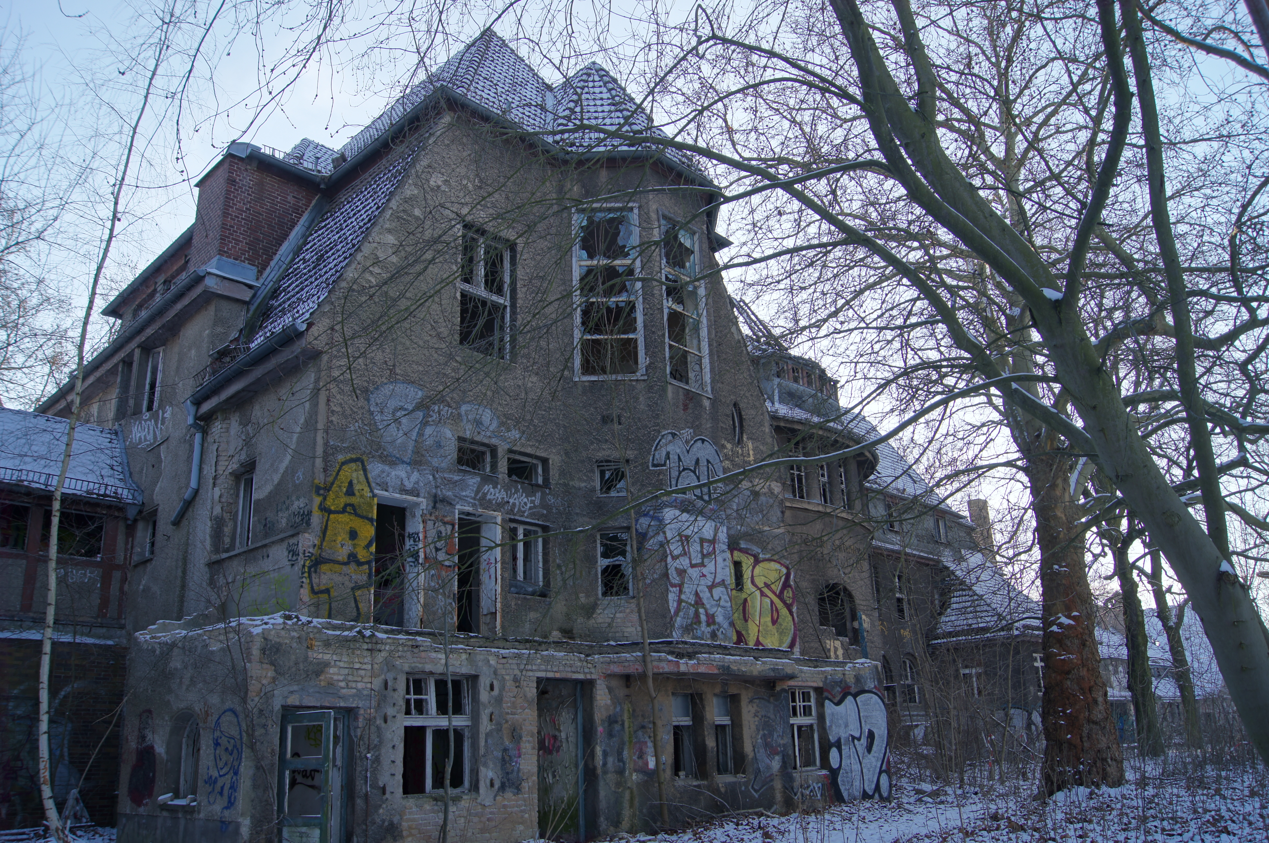 Baby hospital Berlin-Weissensee, Germany